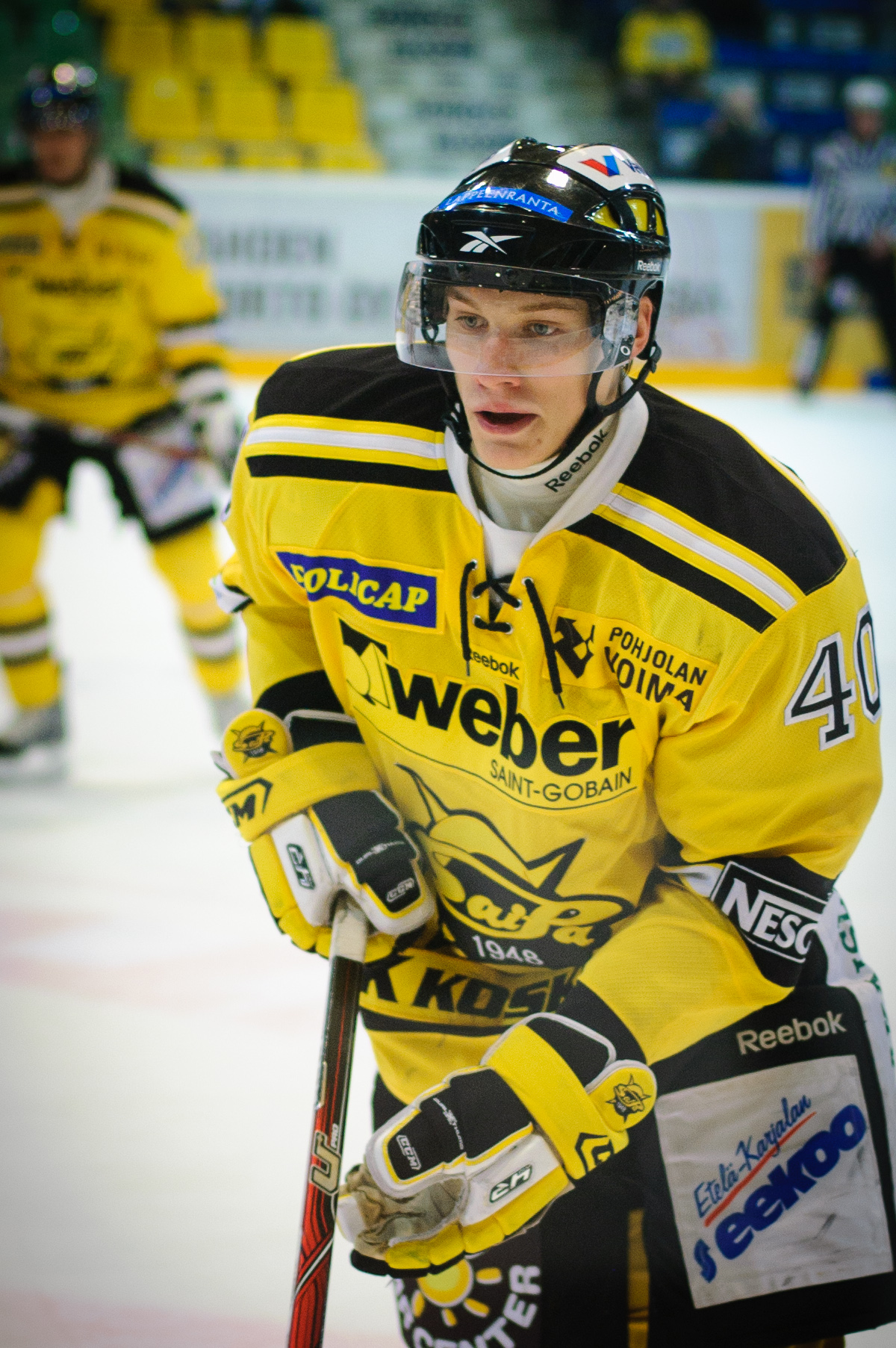 Finnish ice hockey player Jarno Koskiranta playing for SaiPa Lappeenranta against Tappara Tampere in the Finnish SM-liiga in Lappeenranta, Finland.